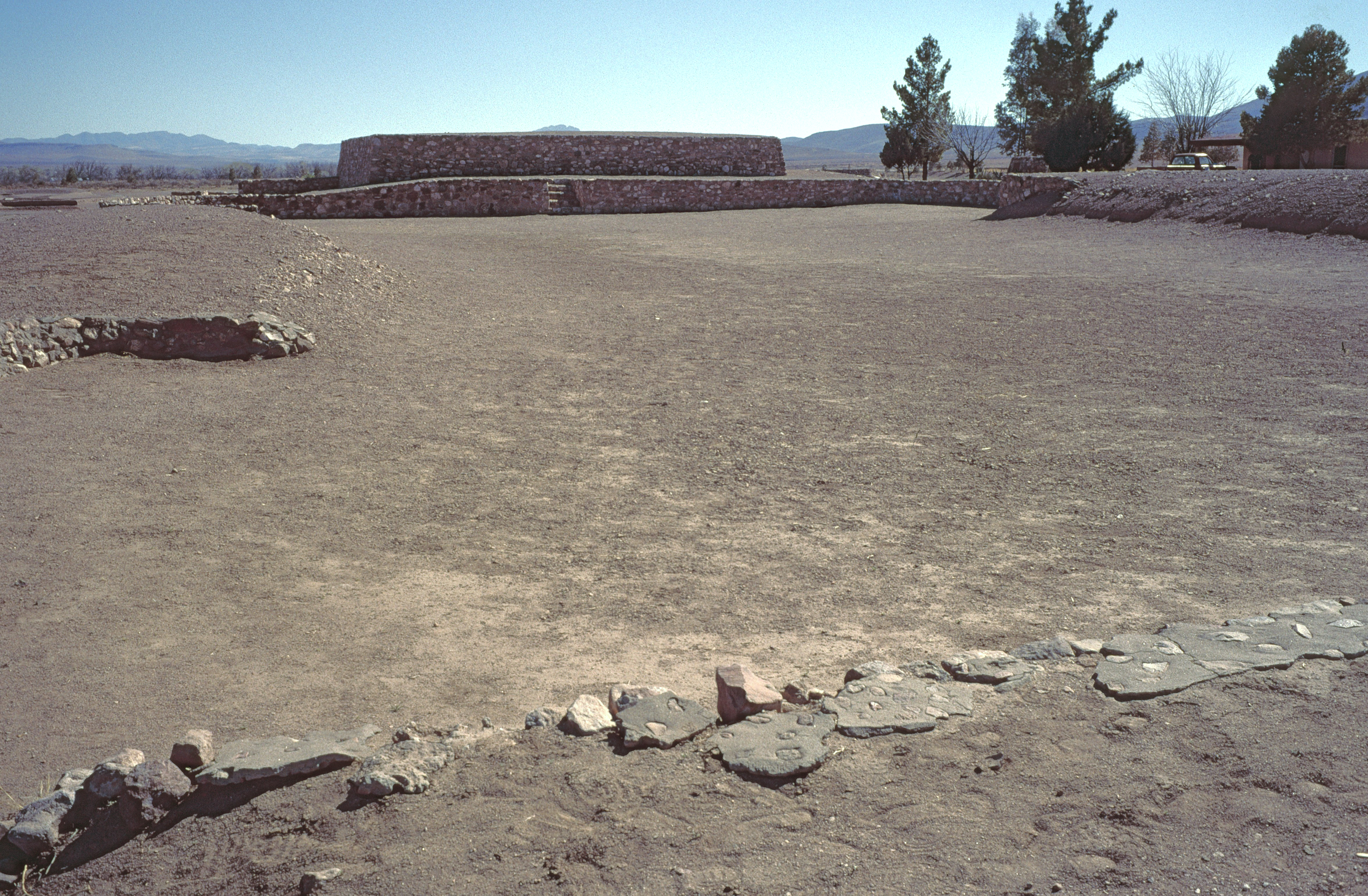 Paquimé, Chihuahua, Mexico: ball court